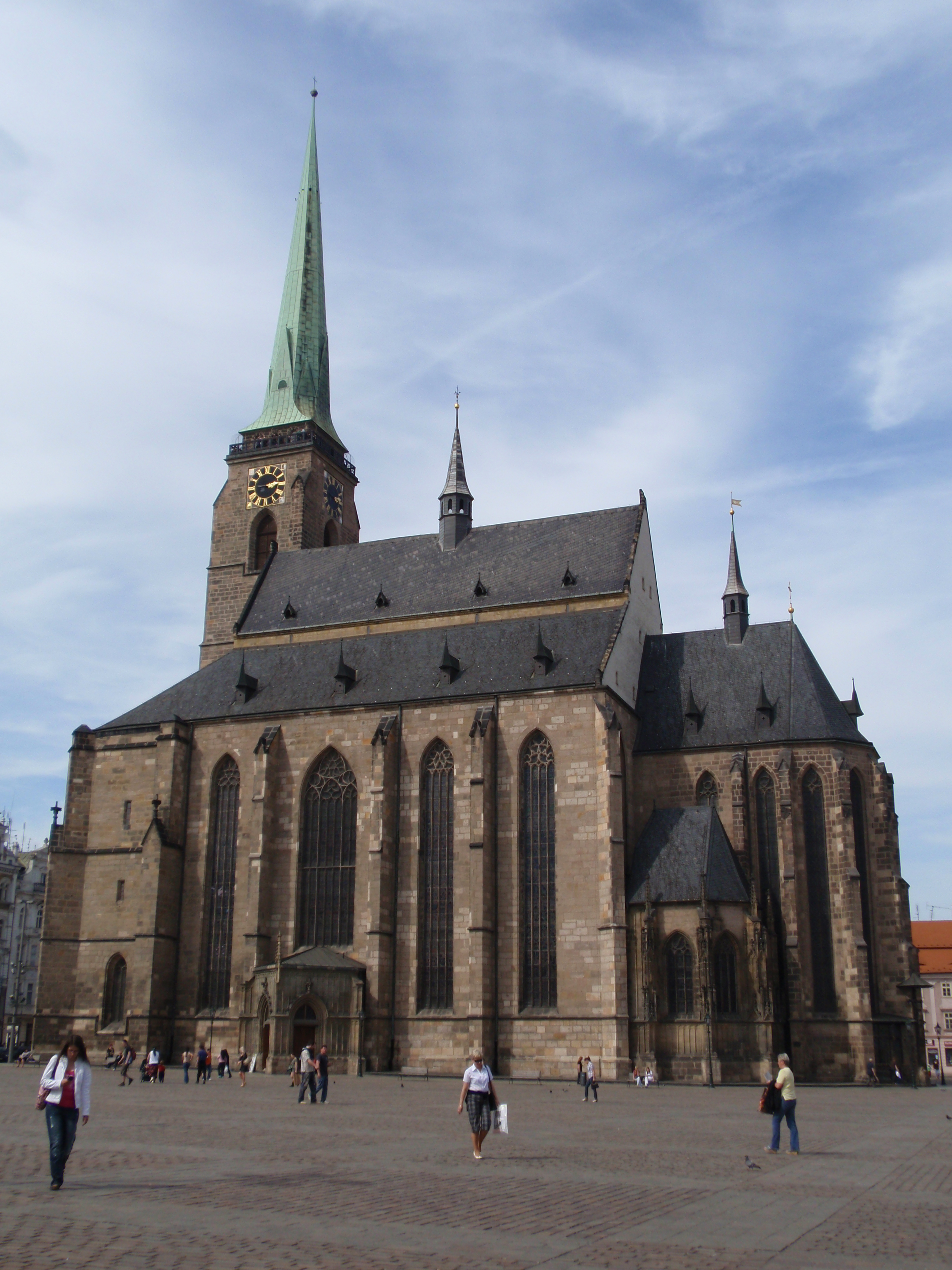 Cathedral of Saint Bartholomew in Plzeň